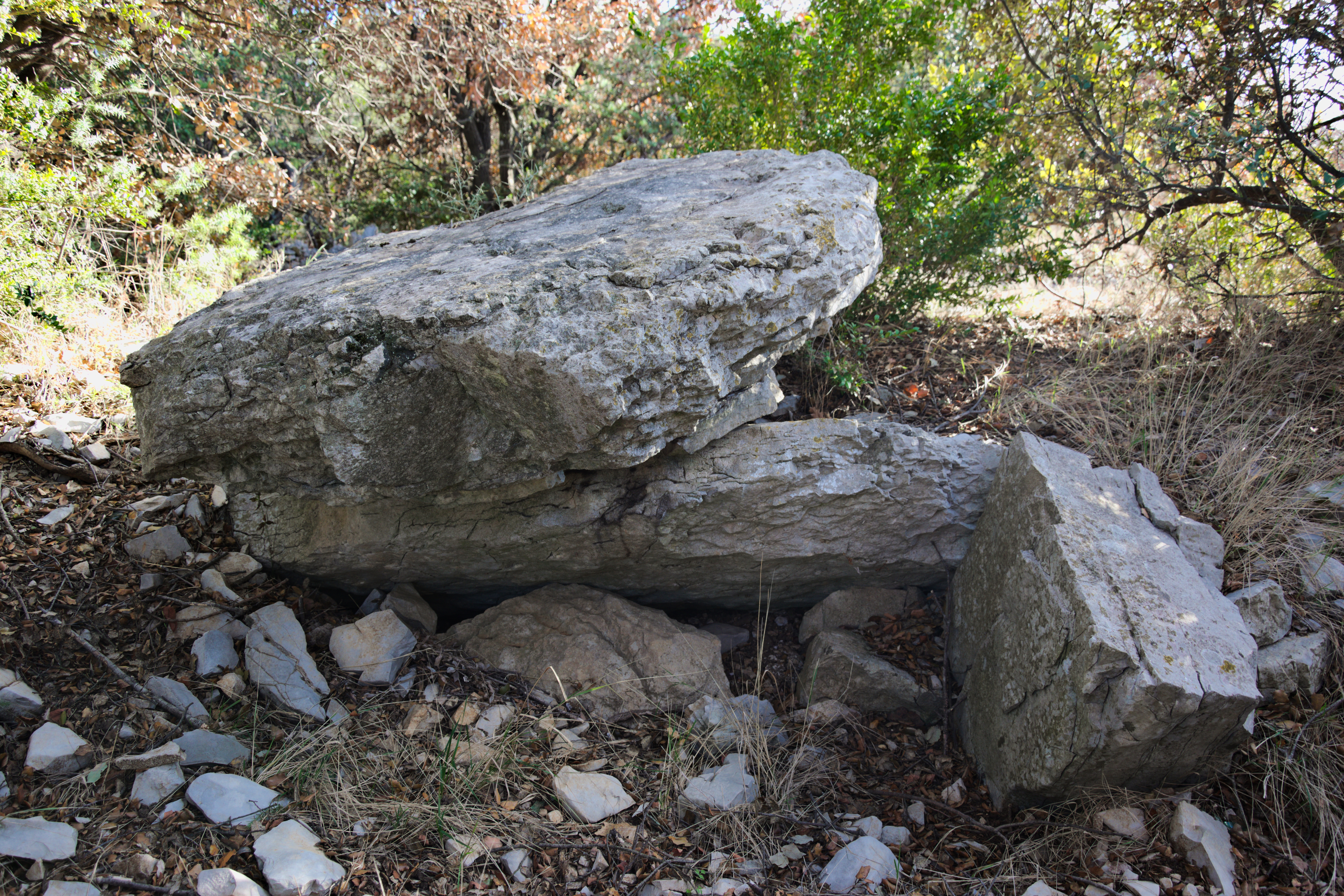 Type : Burial Chamber (Dolmen) Nearest Village: Monoblet (Gard - Occitanie - France)